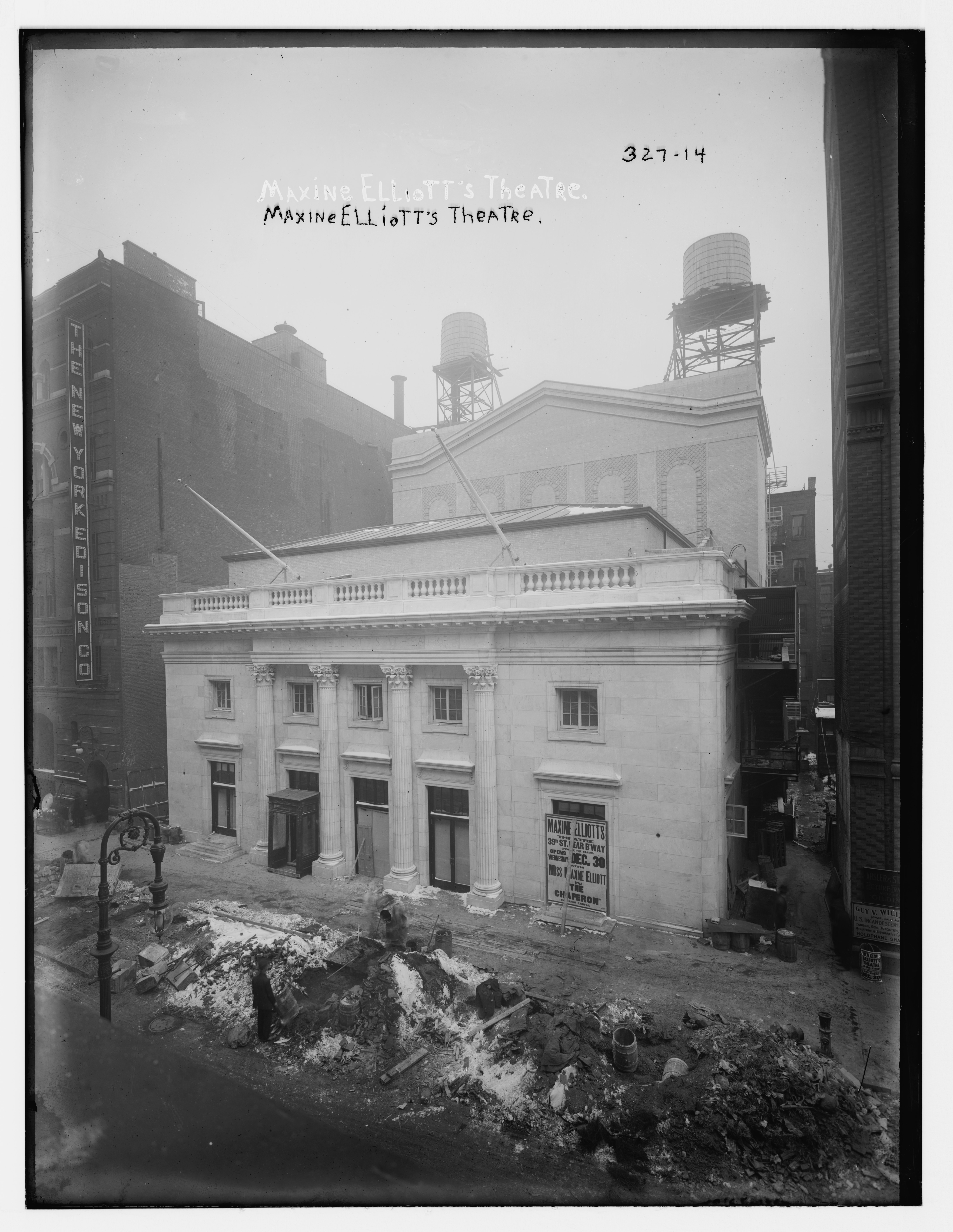 Title: Maxine Elliott's Theatre Abstract/medium: 1 negative : glass ; 8 x 10 in.